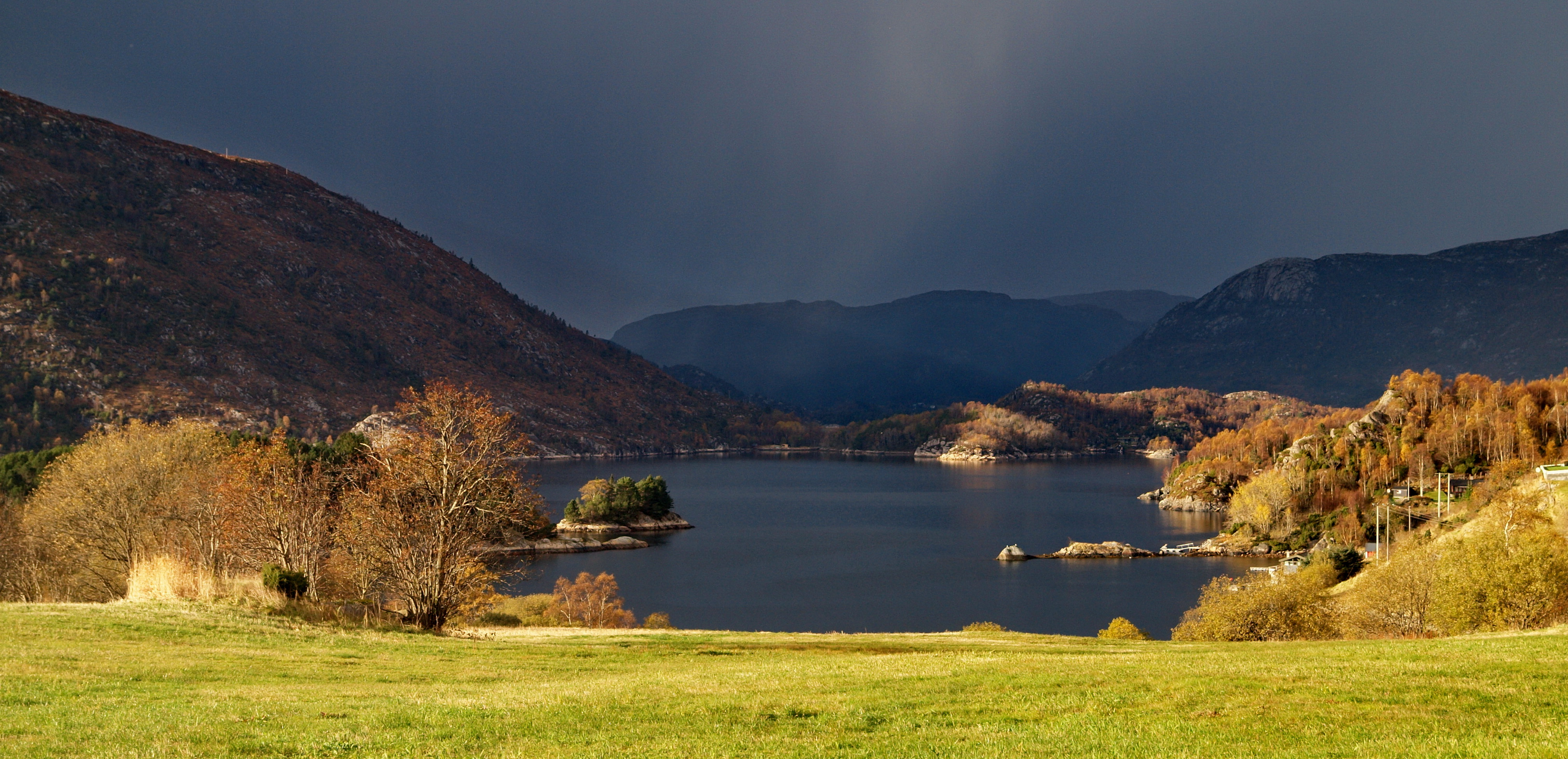 Dalsøyras, Gulen municipality, Sogn og Fjordane county, Norway.